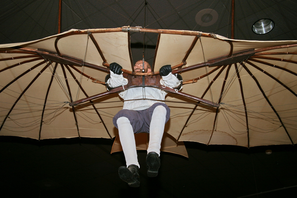 The Lilienthal glider in the NASM collection (Smithsonian - National Air and Space Museum) was built by the German experimenter Otto Lilienthal in 1894. It was purchased from Lilienthal by the American newspaper magnate William Randolph Hearst in the spring of 1896. Hearst sponsored test flights of the glider on a Long Island estate in April and May 1896 in an effort to create publicity and boost the circulation of his newspaper, the New York Journal. Harry Bodine, a New Jersey athlete, made most of the flights, although Journal reporters and other spectators were also allowed to test their skill. Flights as long as 115 m (375 ft) at altitudes of up to 15 m (50 ft) were made with the glider. Further flight testing, however, ceased after Lilienthal's death in August. The glider was placed in storage until January 1906, when it was displayed at a New York Aero Club show. It then passed into the hands of John Brisben Walker, editor of Cosmopolitan magazine, who presented it to the Smithsonian Institution on February 2, 1906. Minor refurbishing was done in 1906 and 1928, and in 1967 the glider was completely restored. The horizontal tail is not original. The NASM Lilienthal glider is one of six remaining in the world.